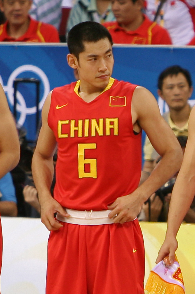 Team China - Men's Basketball - Beijing 2008 Olympics